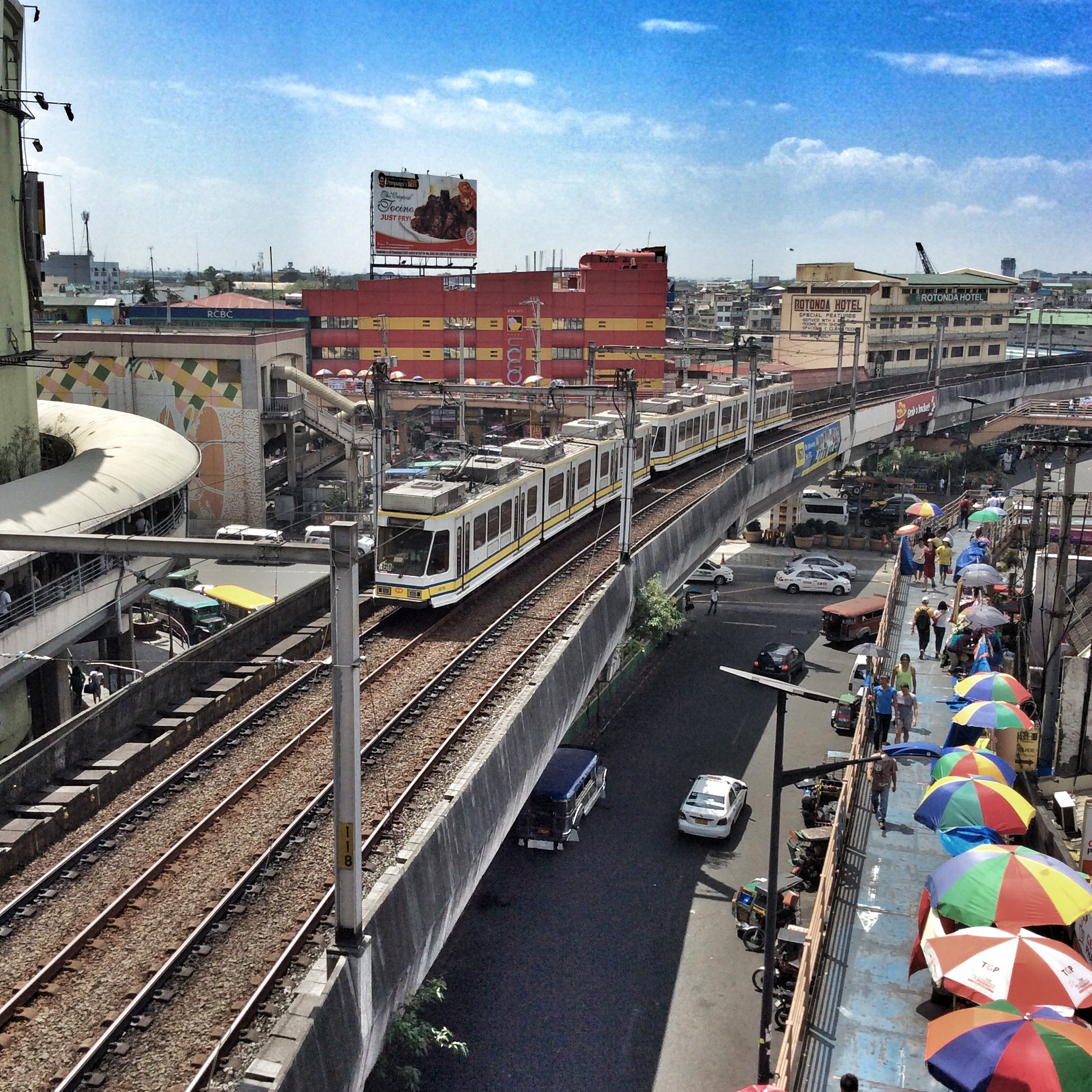 Manila Line 1 train approaching EDSA Station